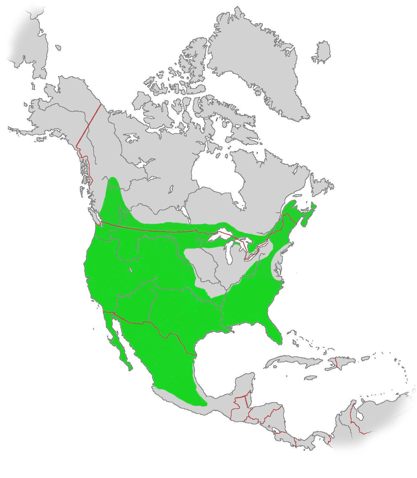 Distribution of Lynx rufus